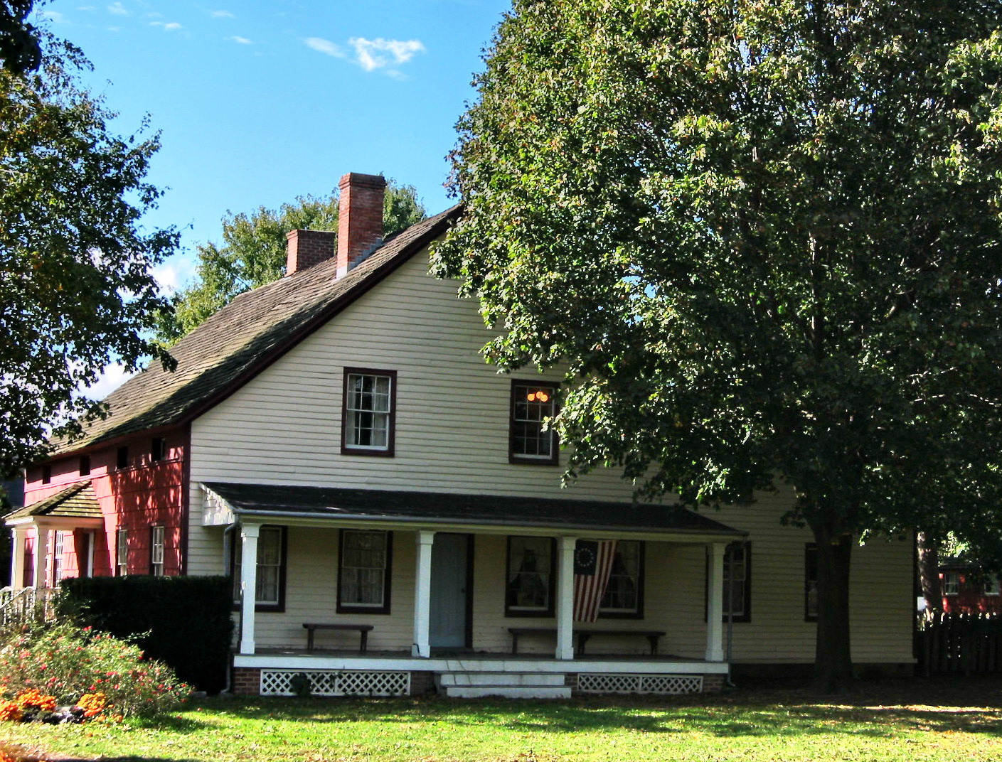 Adriance House @ The Queens County Farm Museum